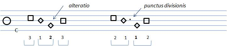 example of alteration